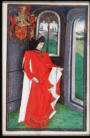 Statuts, Ordonnances et Armorial de l'Ordre de la Toison d'Or (Statutes, Ordonnances and armorial of the Order of the Golden Fleece) Place of origin, date: Southern Netherlands; 1473. Added sections: Southern Netherlands; 1478 or shortly after and 1491 or shortly after Material: Vellum, ff. 86, 249x187 (167x106) mm, 23 lines, littera cursiva (lettre bourguignonne). French. Binding: 18th-century brown leather Decoration: 1 full-page miniature (170x115 mm) with border decoration; 92 miniatures (185/155x120/100 mm); 1 historiated initial (80x90 mm) with border decoration; decorated initials with border decoration (ff., Added section: miniatures ; 4 drawings for miniatures (not finished) Provenance: Presented in 1473 by Gilles Gobet, King of Arms of the Order of the Golden Fleece, to Charles the Bold, Duke of Burgundy and the other Knights during the Chapter of the Order held at Valenciennes; Treasure of the Golden Fleece, Brussls; taken away by the Treasurer C.-F. Humyn (d. 1735) or his daughter C.Ch. de Corte; by legacy to her daughter M.-L. de Corte, wife of Ph.-E. de Poederlé; purchased in 1781 at the Poederlé sale by G.-J- Gérard of Brussels; acquired in 1832 as part of the Gérard collection (no. A 27)